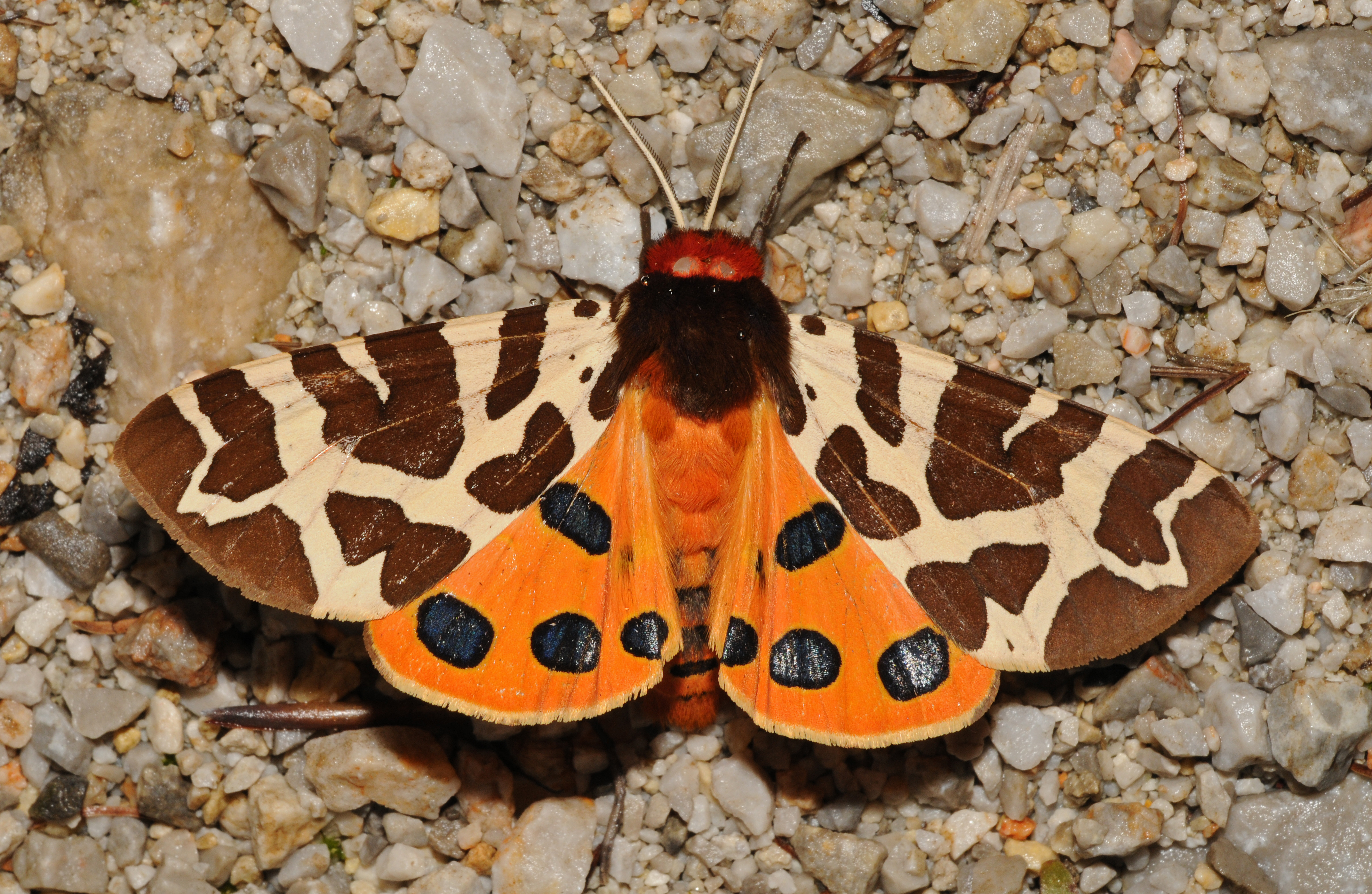 Cream-spot Tiger